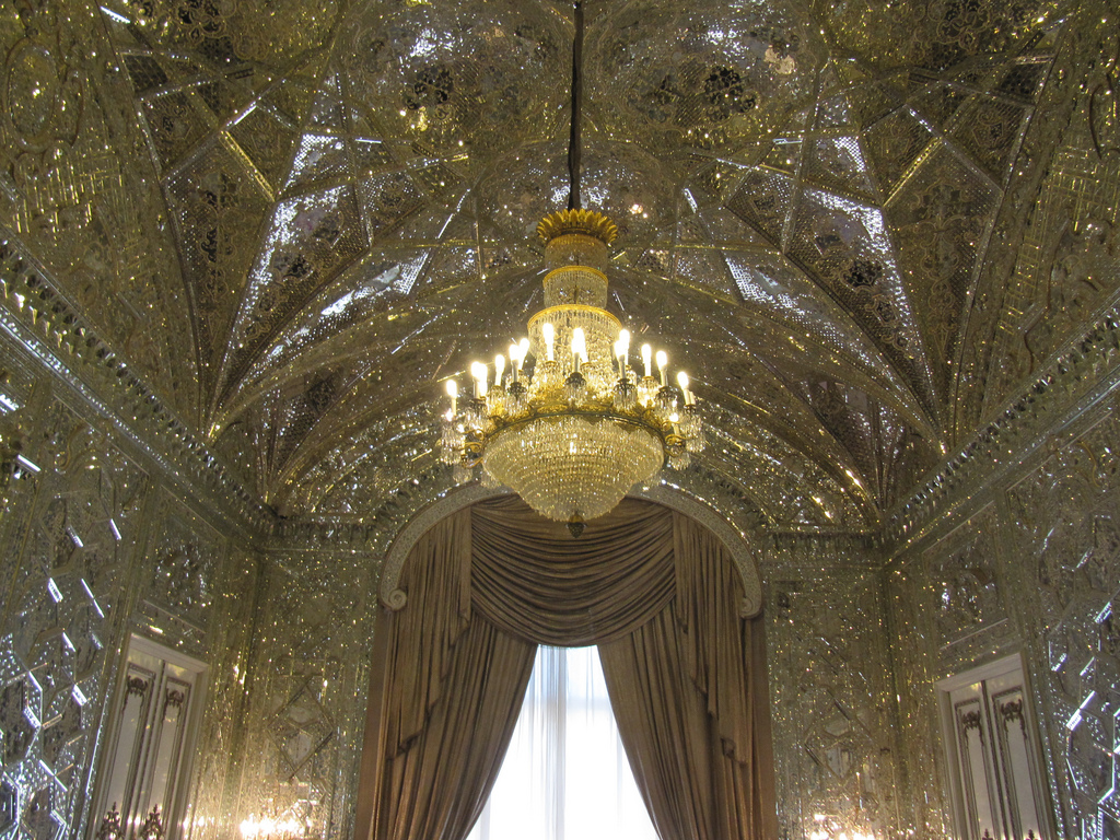 Mirrored ceiling/walls and chandelier in the Hall of Mirrors at the Sa'dabad Palace — Tehran.